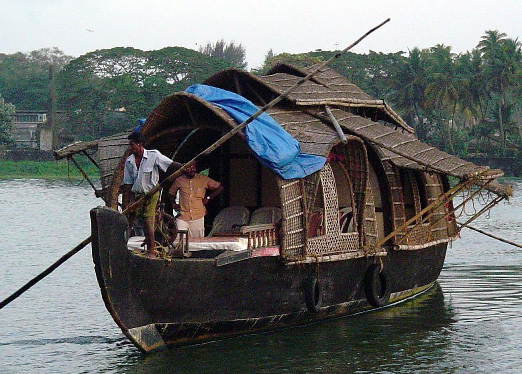 House boat, backwaters